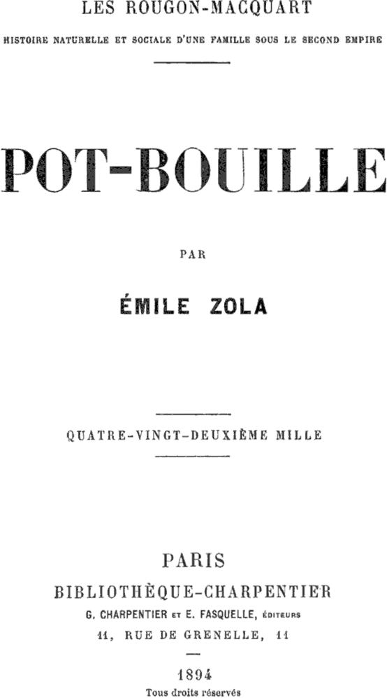 Book cover of Pot-Bouille by Émile Zola (1840-1902)